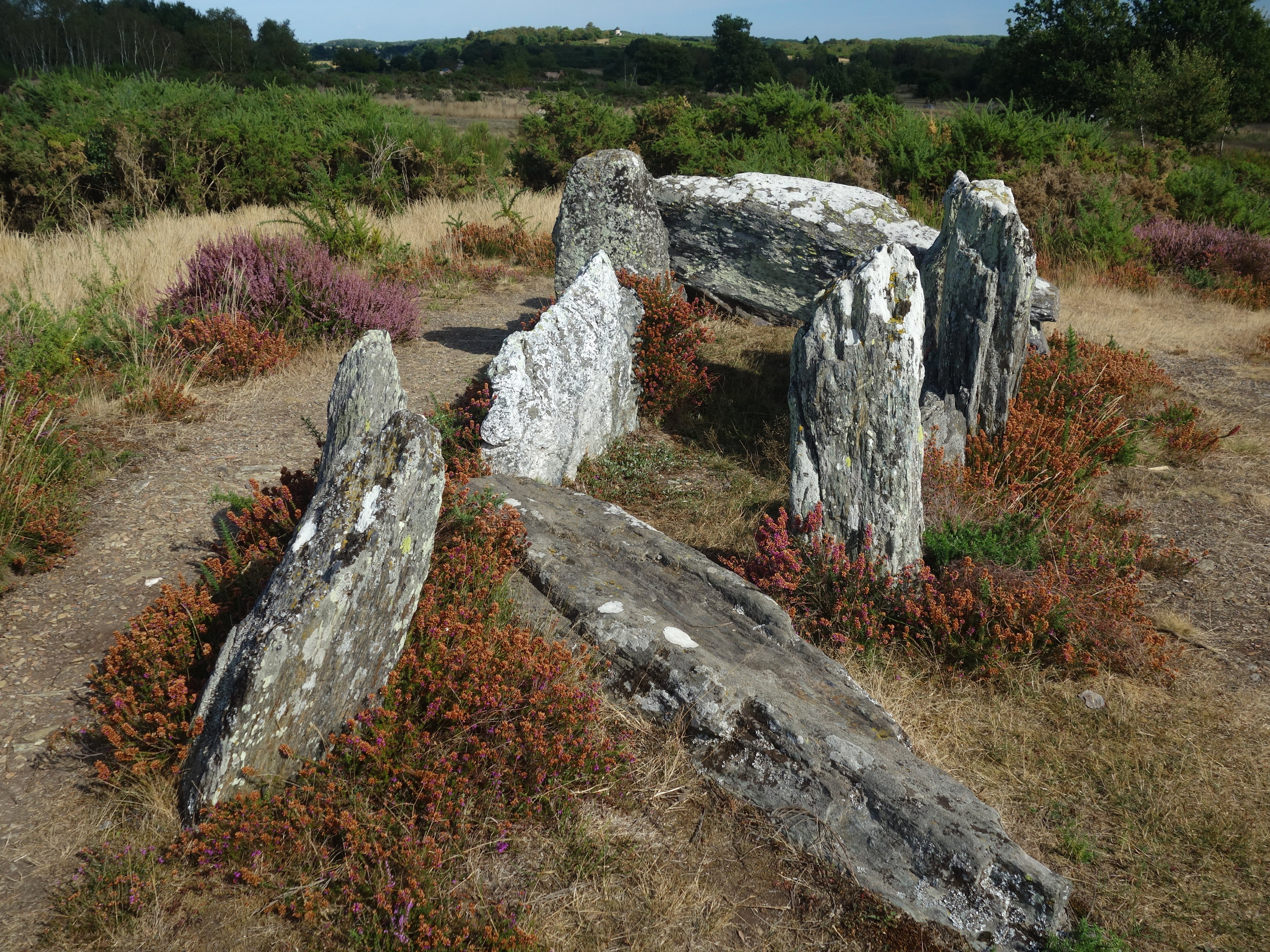 A general sight in the axis of the monument from the west of the dolmen located at the end of the route of the Megalithic site of the Landes de Cojoux, refurbished in 2018 by the Departement of Ille-et-Vilaine